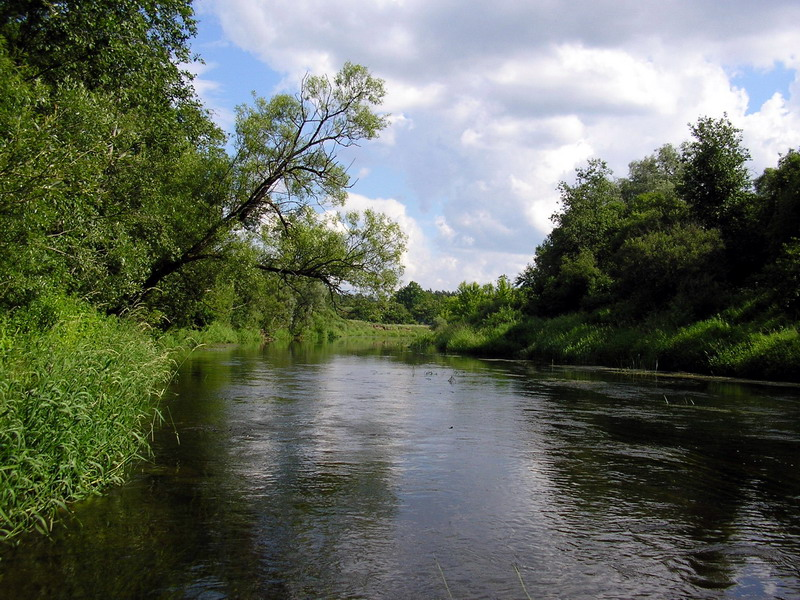 Dubysa river. Gėluva, Raseiniai district, Lithuania.